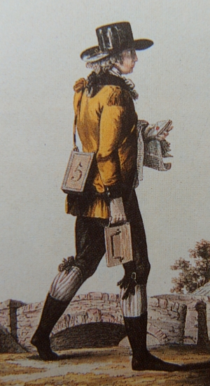 Clapper Postman (engraving)